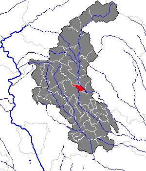 This map shows the area of the Gemeinde (municipality) Feistritz bei Anger in the Bezirk (district) Weiz, Styria, Austria.